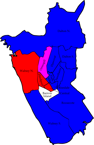 A map of the results of the 2006 Barrow-in-Furness Council election. Colour legend by wards won: Conservative party Labour party Independent People's Party